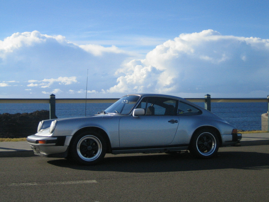 photo - author = self